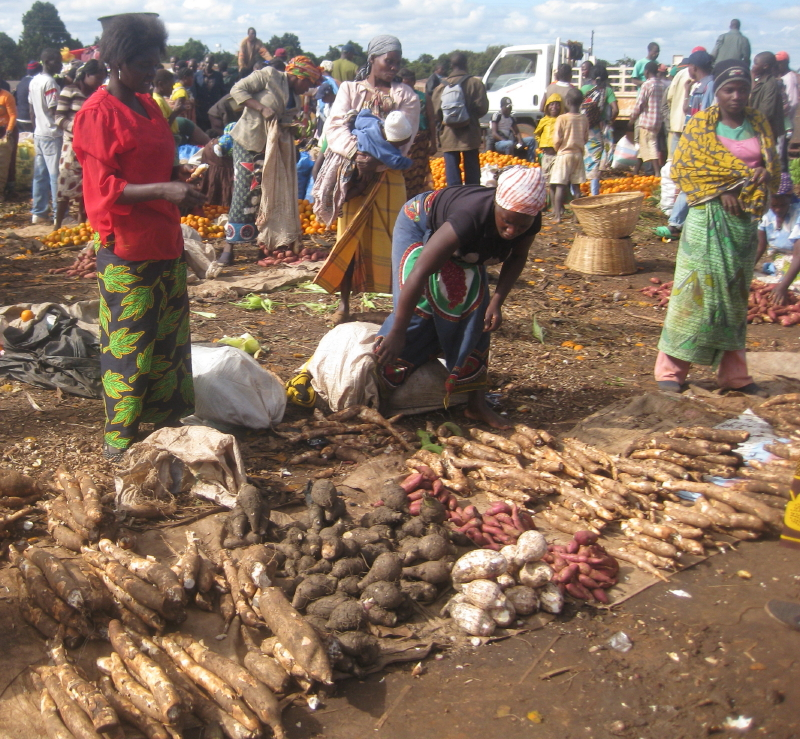 Chimoio market - roots and tubers